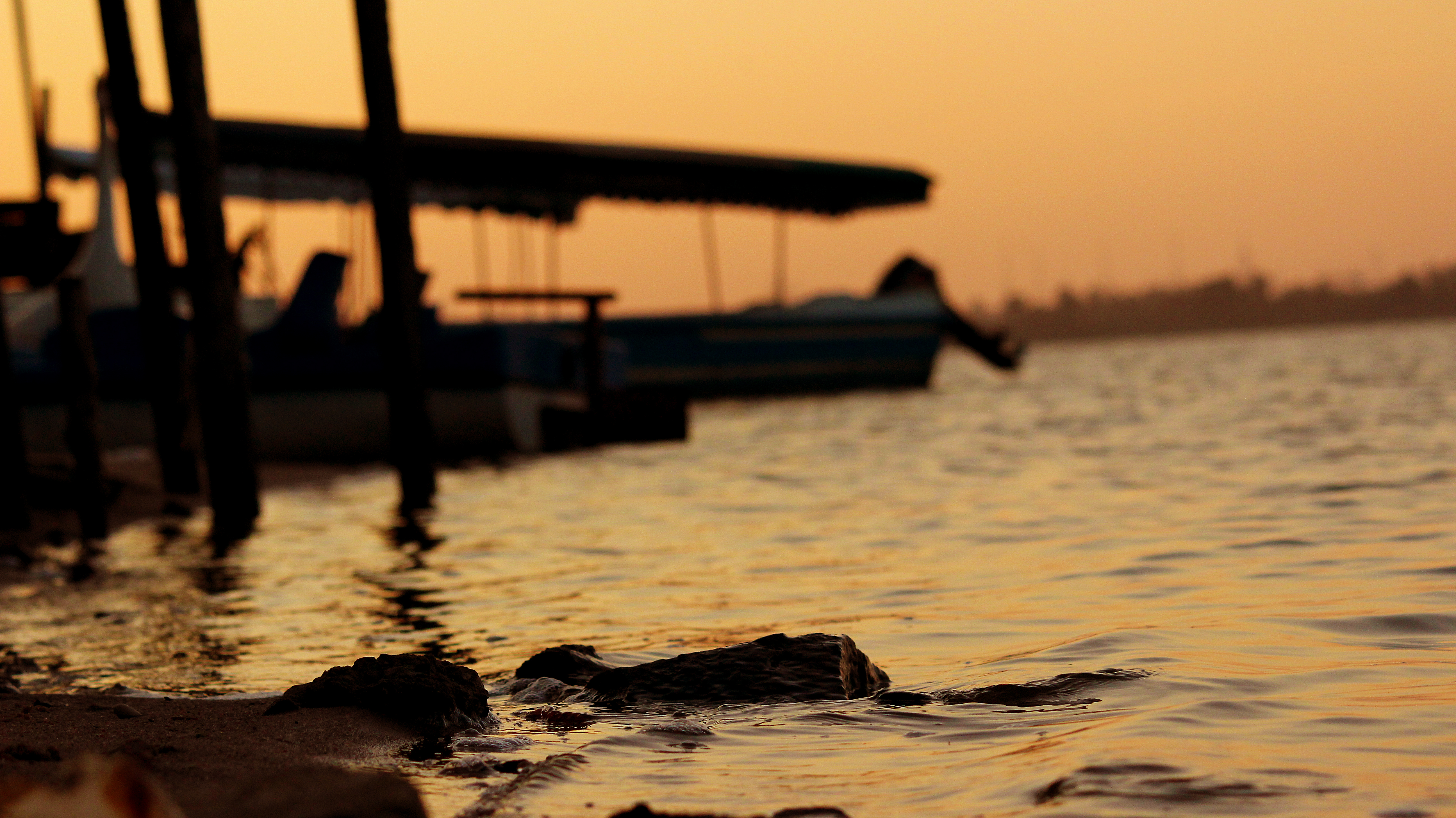 At sunset